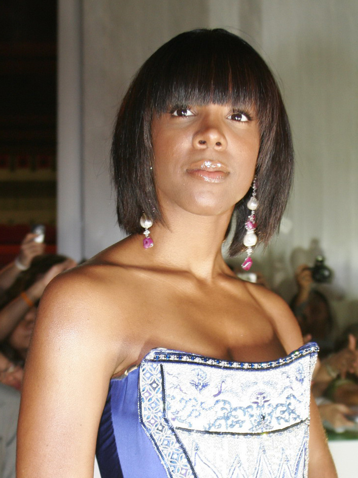 Kelly Rowland on the red carpet MTV Asia Awards 2006, Bangkok, Thailand